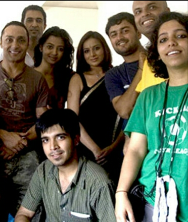 Pooja Fandhi on the set of Indian National award winning hindi movie I am.